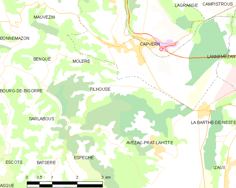 Map of French municipality